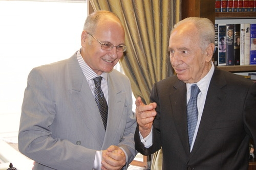 Freddy Eytan with Shimon Peres